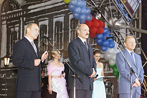 VITEBSK, BELARUS. President Putin with Belarusian President Alexander Lukashenko and Ukrainian President Leonid Kuchma during the inauguration of the Day of Friendship of the Peoples of the Three Slavic States as part of the 10th International Slavic Bazaar Festival.